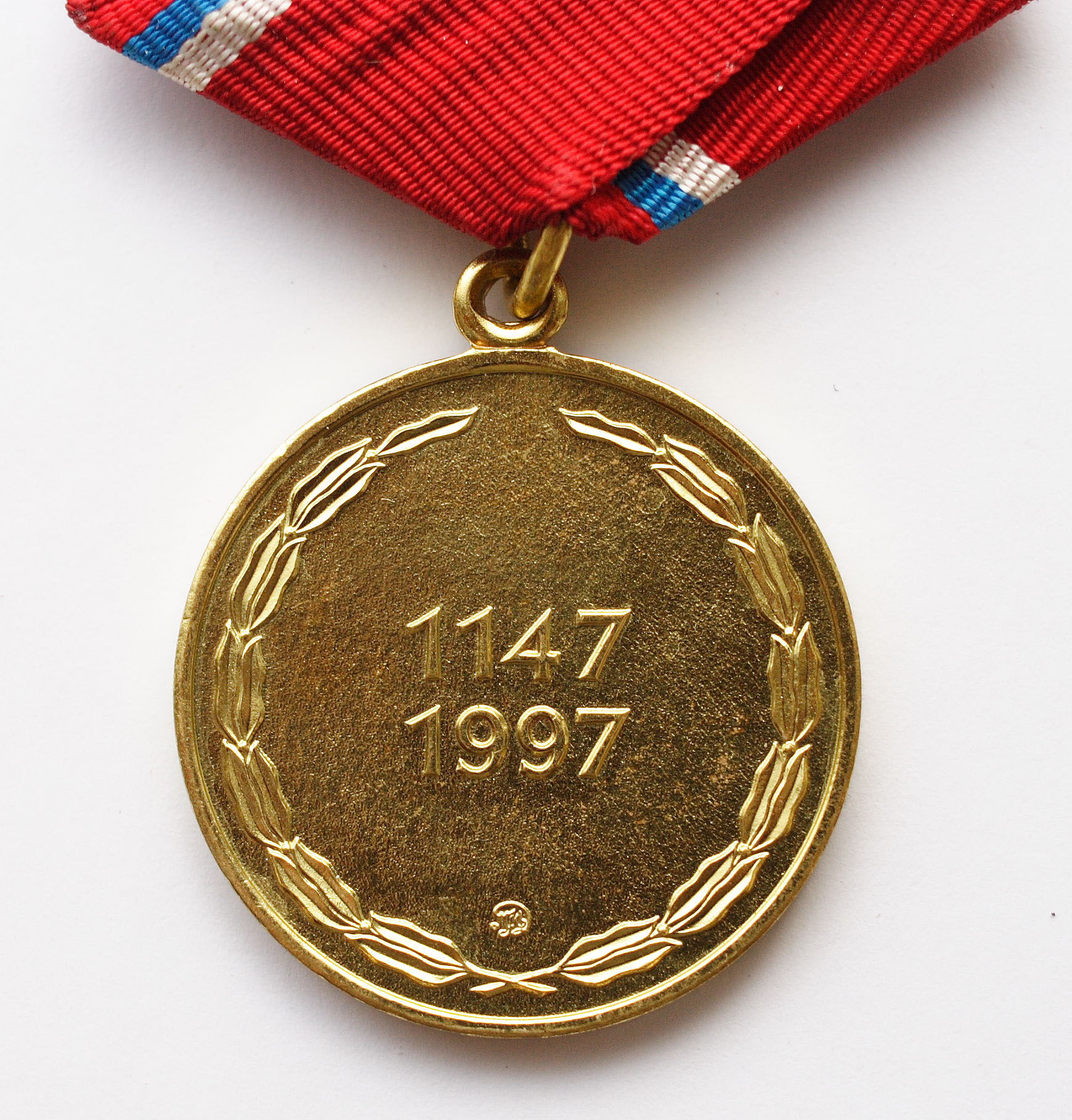 Medal 850th Anniversary of Moscow, revers